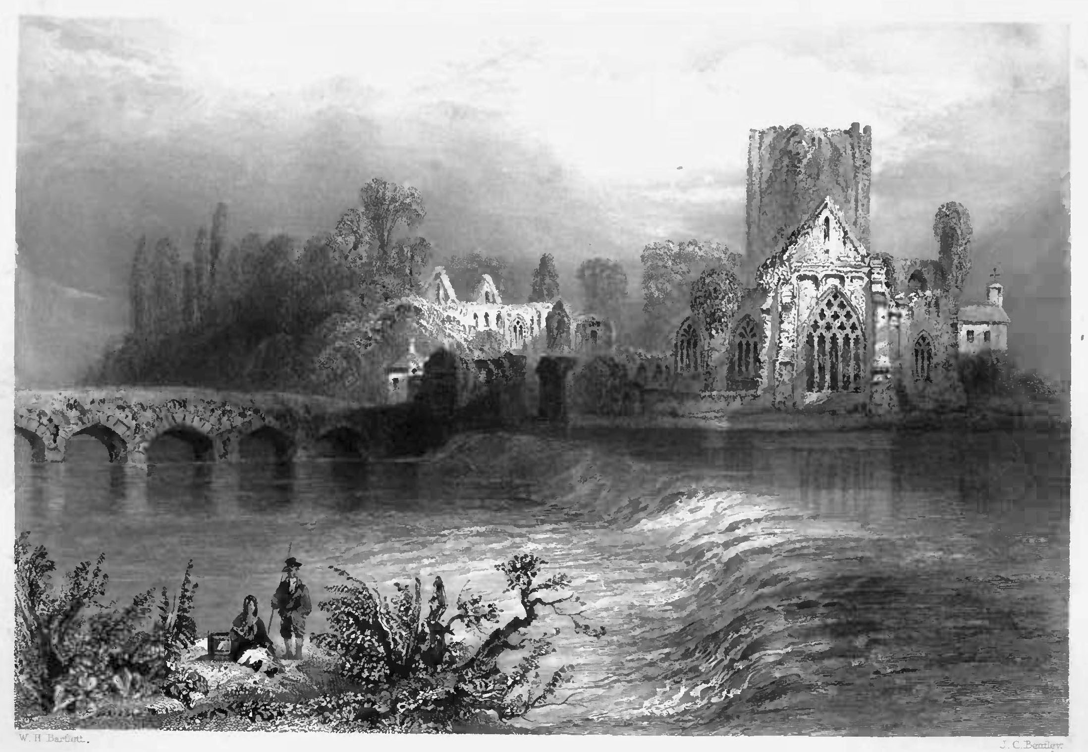 Holy Cross Abbey, Bartlett, W. H. (William Henry), 1809-1854.